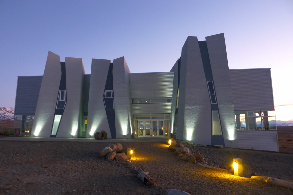 Glaciarium Exterior